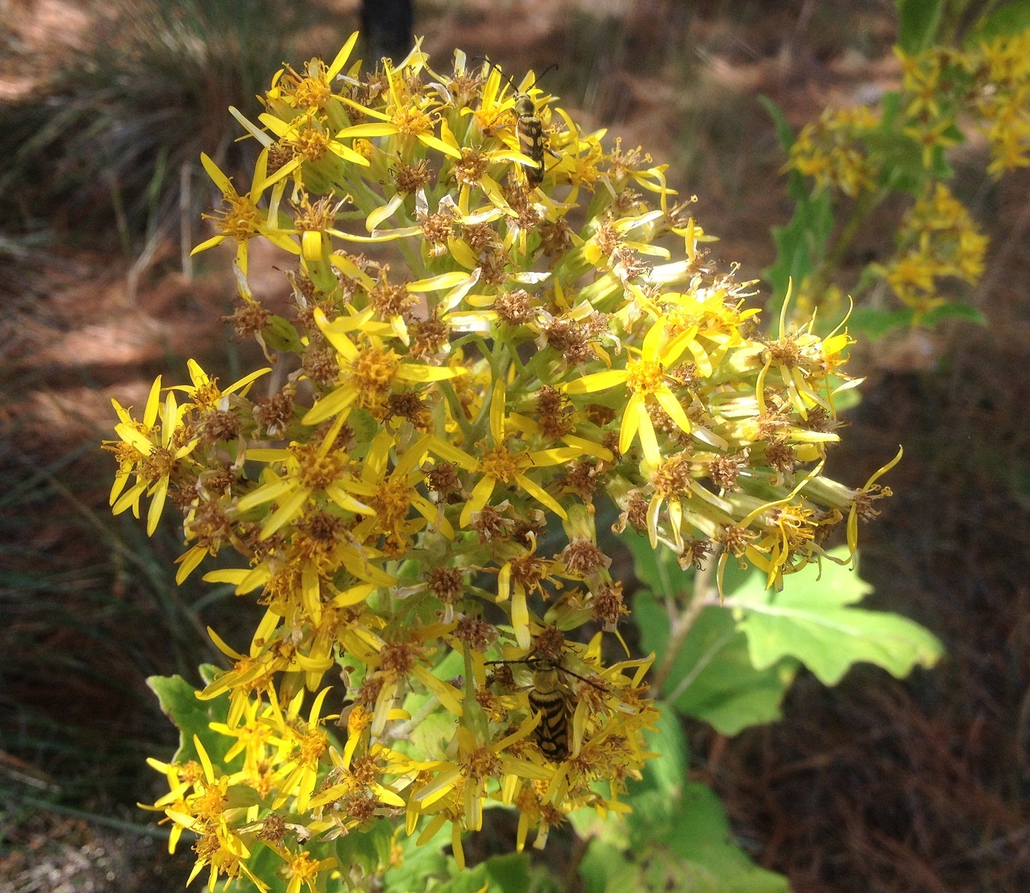 Detail of the inflorescence of Roldana candicans, a subalpine shrub from the Mexican highlands. Photo taken at the slopes of Cofre de Perote volcano in Perote, Veracruz. This photo has also been posted on iNaturalist